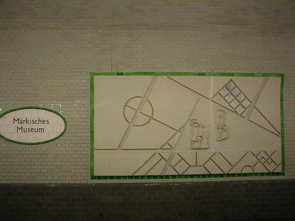 The Berlin U-Bahn station Märkisches Museum, line U2